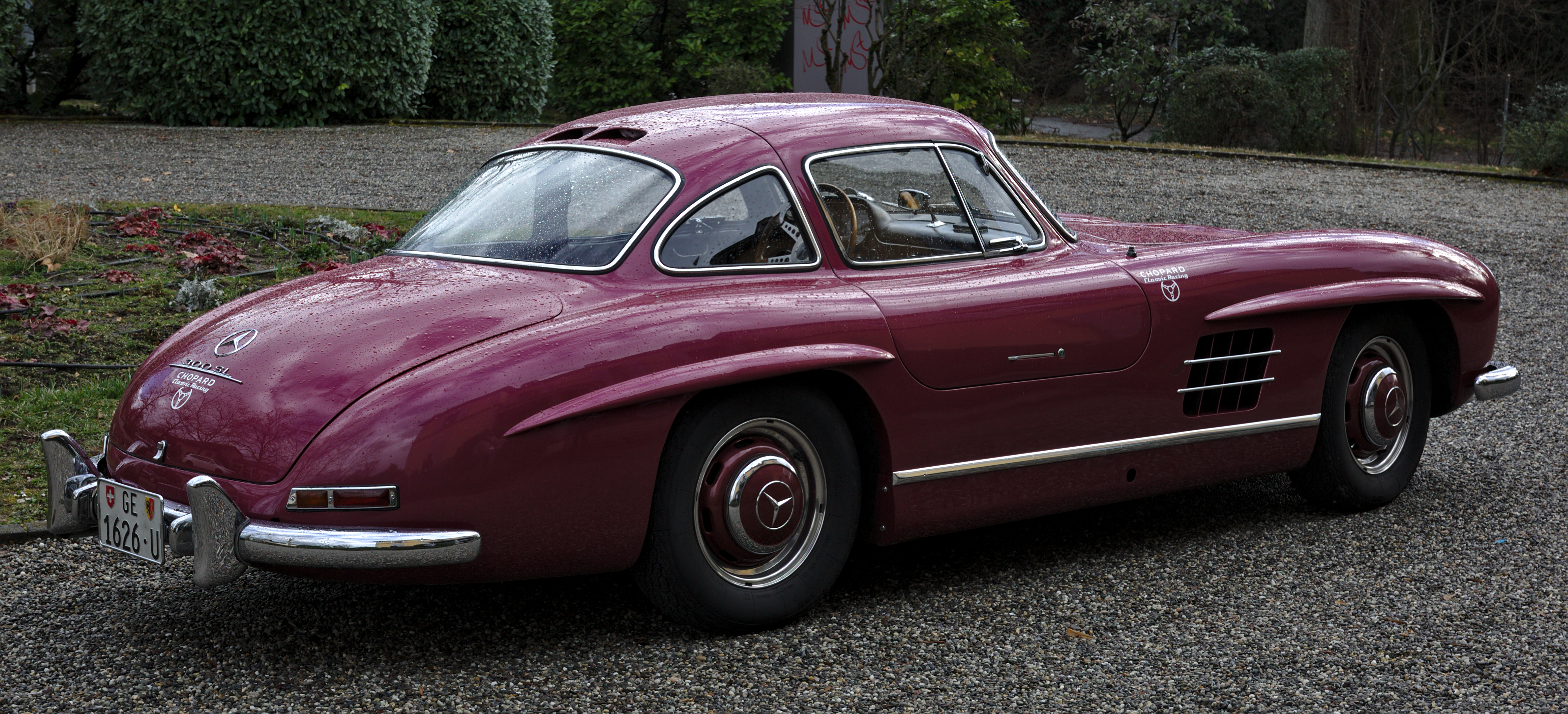 Mercedes-Benz W198 300 SL Gullwing at Geneva Motor Show 2019